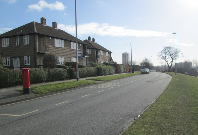 Ramshead Drive - viewed from Ramshead Approach